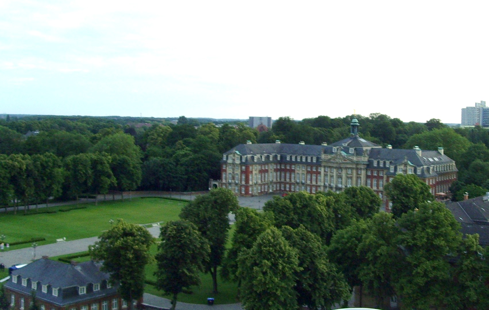 Palace Square in Münster, Germany (2012-06-25)